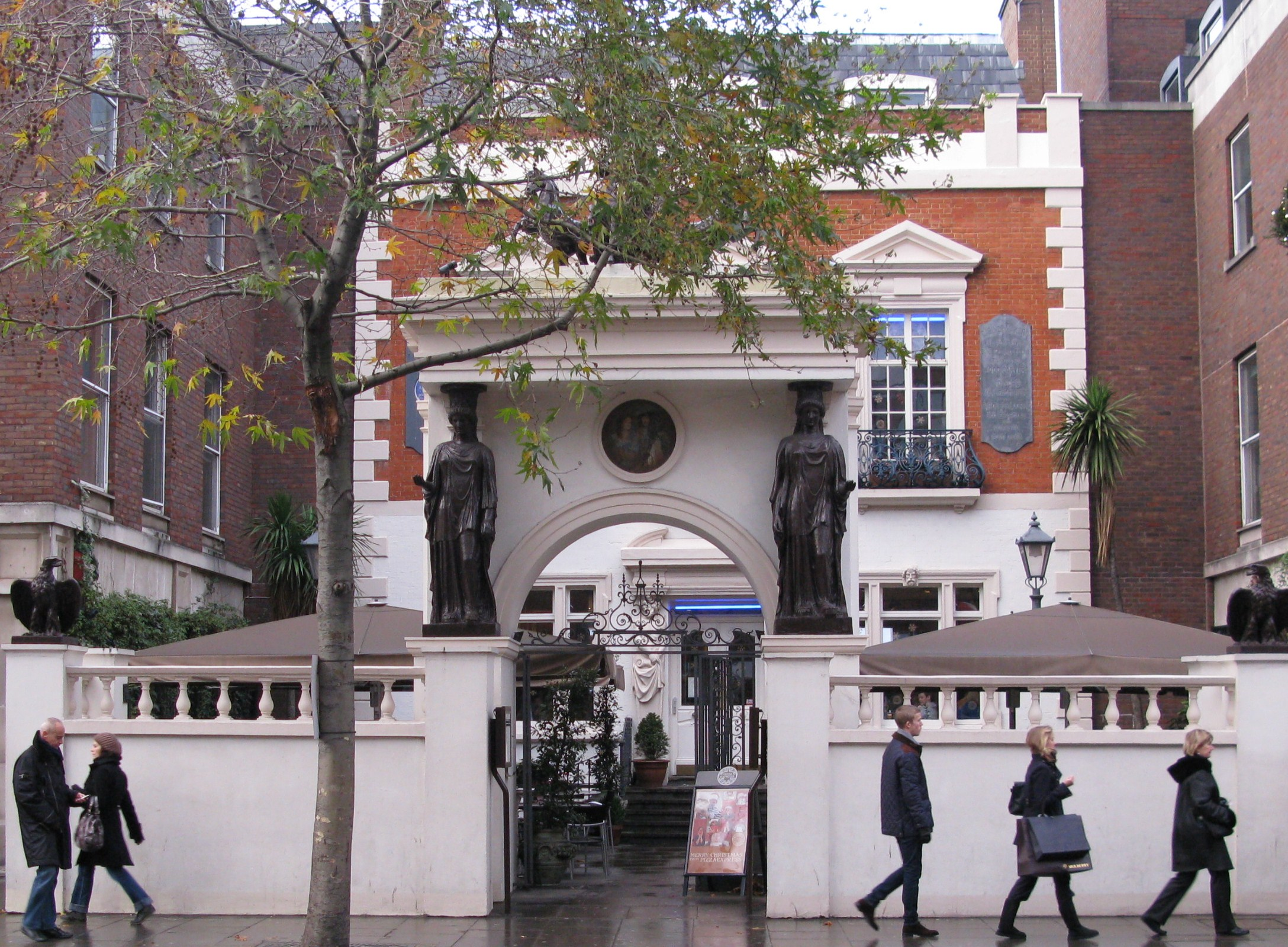 The Pheasantry front view